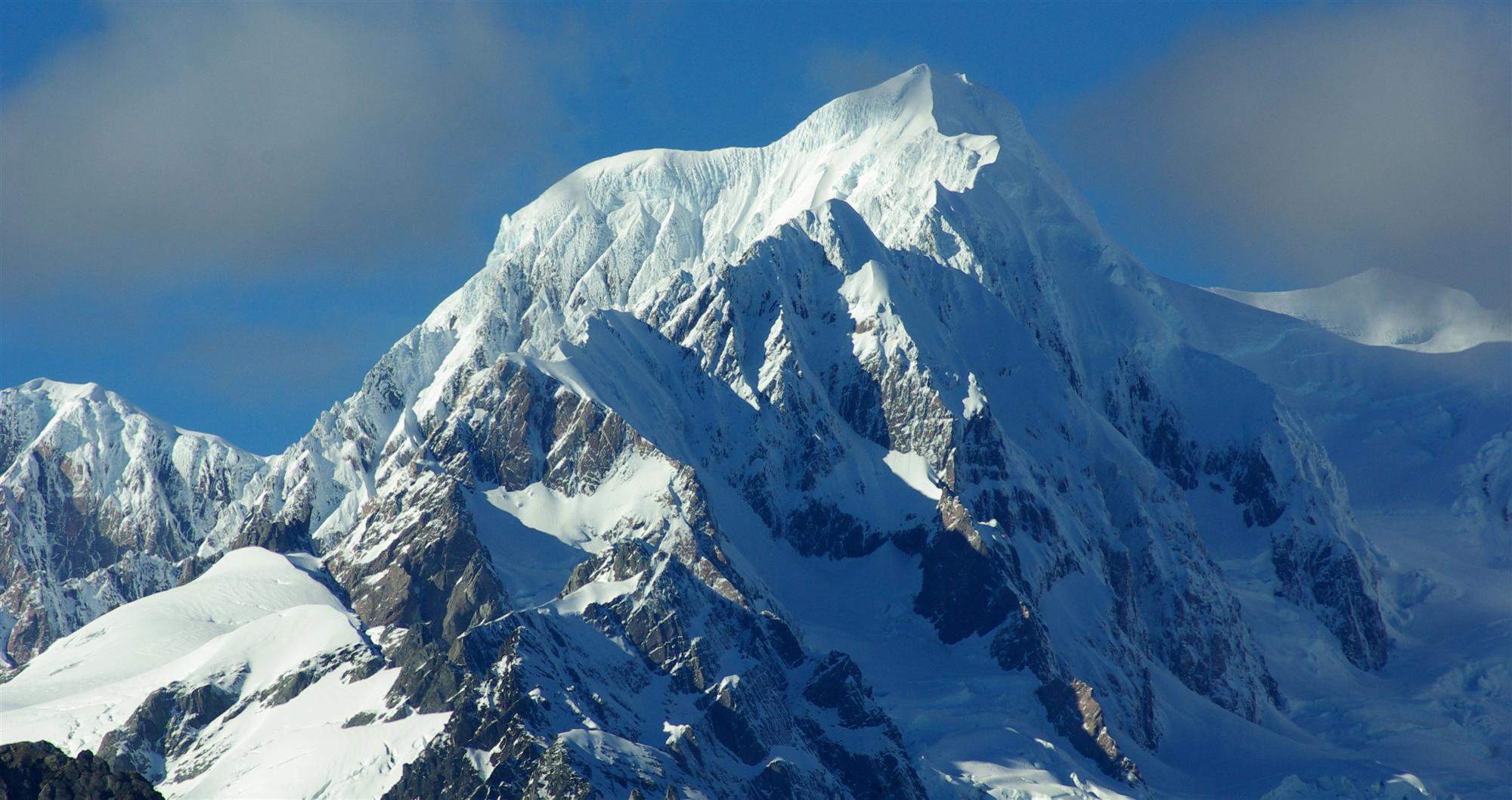 Mount Tasman, New Zealand's second highest mountain, viewed from Mount Fox.